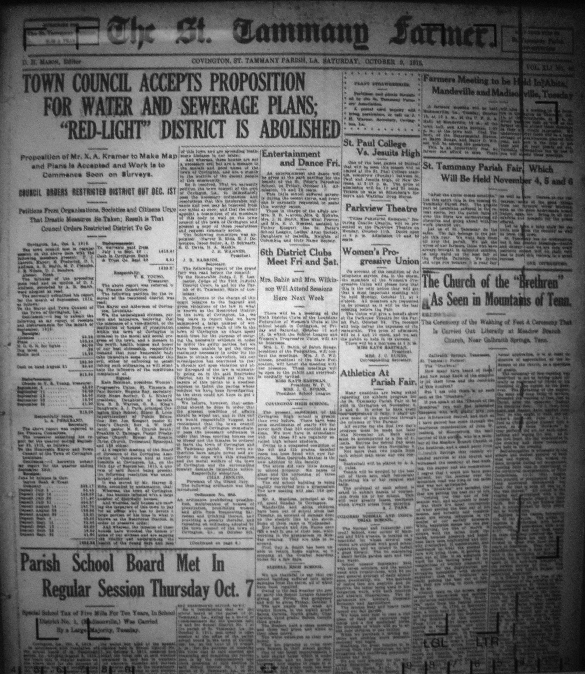 Front page of the St. Tammany Farmer newspaper, Covington, Louisiana, 9 October 1915